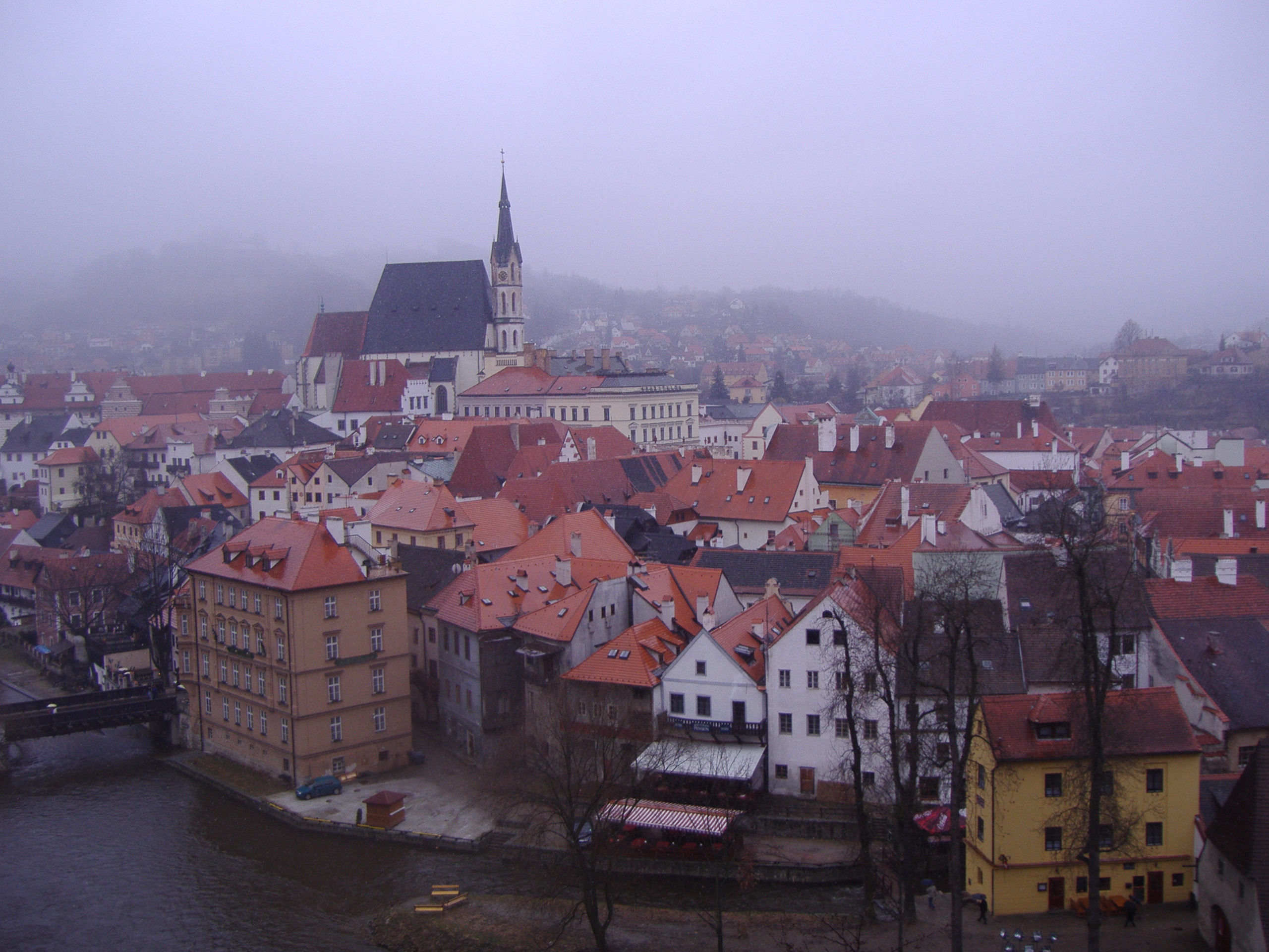 Overlook from the tower of castle of Cesky Krumlov, photoed by Shen Yun